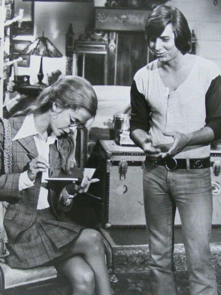 Publicity photo of Bobby Sherman and Diana Ewing from the premiere of the television show Getting Together.